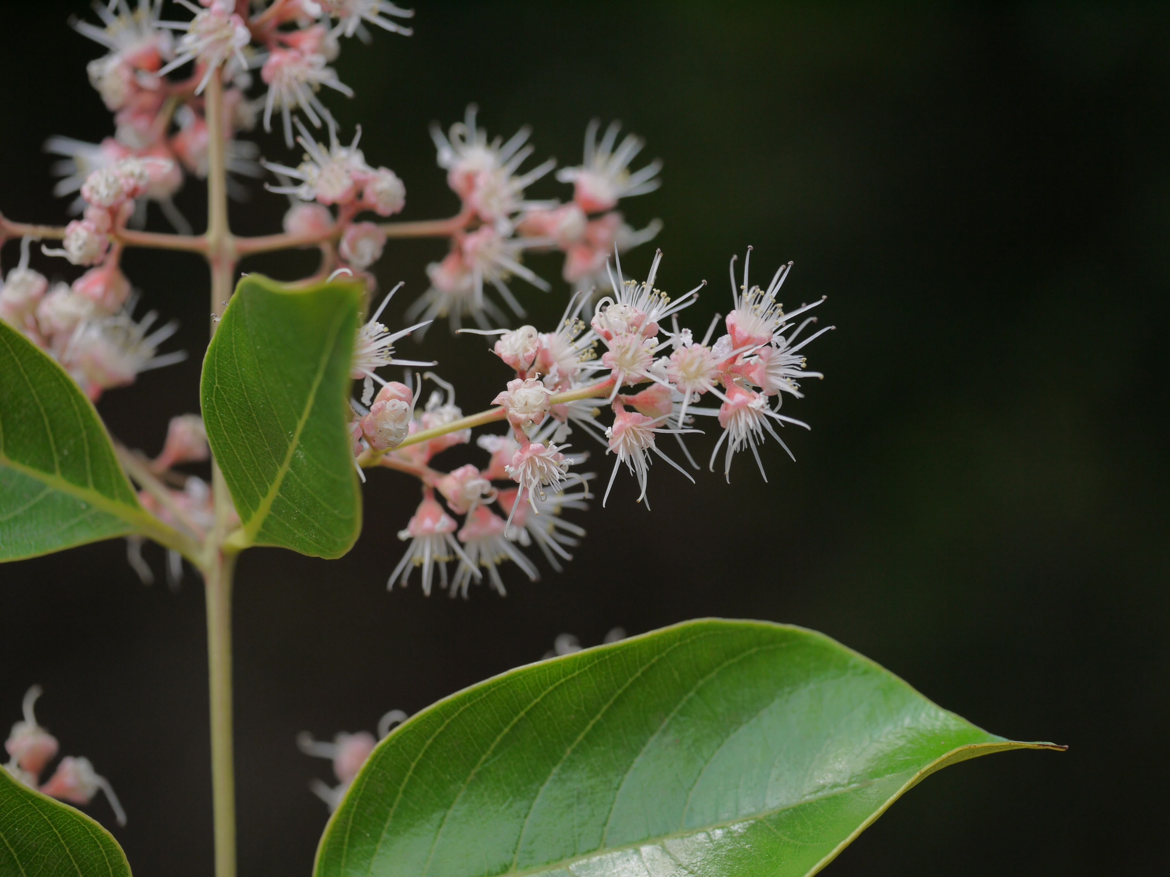 Lythraceae (Lythrum, or loosestrife family) » Lagerstroemia microcarpa la-ger-STROO-mee-uh -- named for Magnus von Lagerström, Swedish naturalist my-kro-KAR-puh -- meaning, tiny fruit commonly known as: ben teak, nana • Kannada: ನಮ್ದಿಮರ nandimara • Konkani: नरम naram • Malayalam: വെള്ളിലവ് vellilav, വെന്തേക്ക് ventheekk • Marathi: बोंडारा bondara, कुंबया kumbaya, नाना or नाणा nana • Tamil: கச்சைக்கட்டை kaccai-k-kattai, வெள்விளா vel-vila, வெண்டேக்கு ventekku • Telugu: చిన్నంగి chinnangi Endemic to: Western Ghats (India) References: Flowers of India • The Gazetteers Department • DDSA